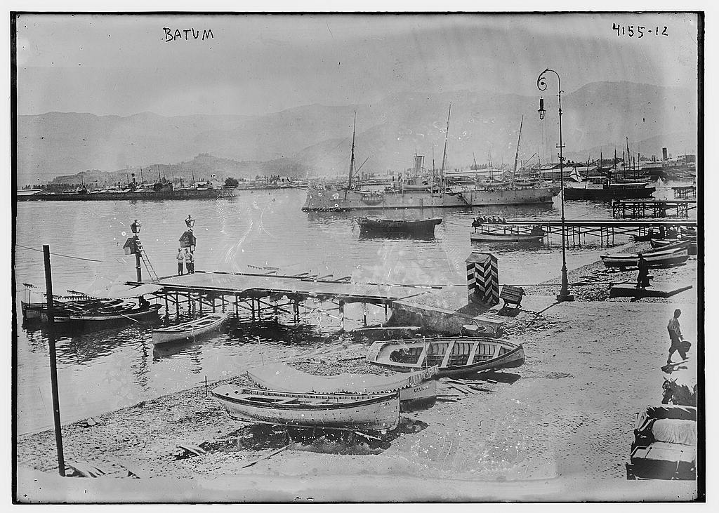 Imperial Russian gunboat Donets in Batumi, 1912-1914.